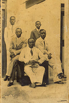 L-R Akinwumi Rhodes-Vivour , Justice S.B. Rhodes , Steve Rhodes